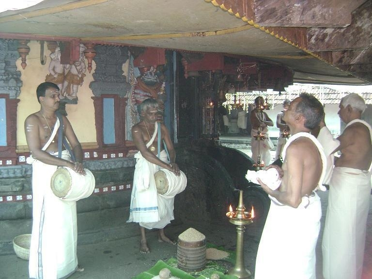 Marappaani - Traditional Art for of Kerala